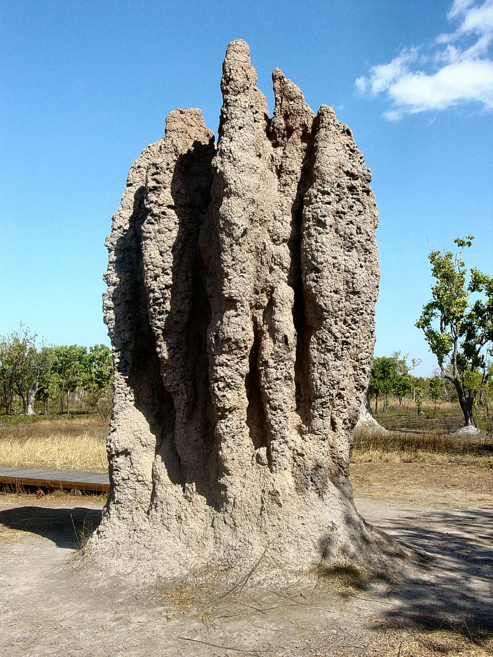 Photo taken and supplied by Brian Voon Yee Yap. Cathedral Termite Mounds in the Northern Territory.